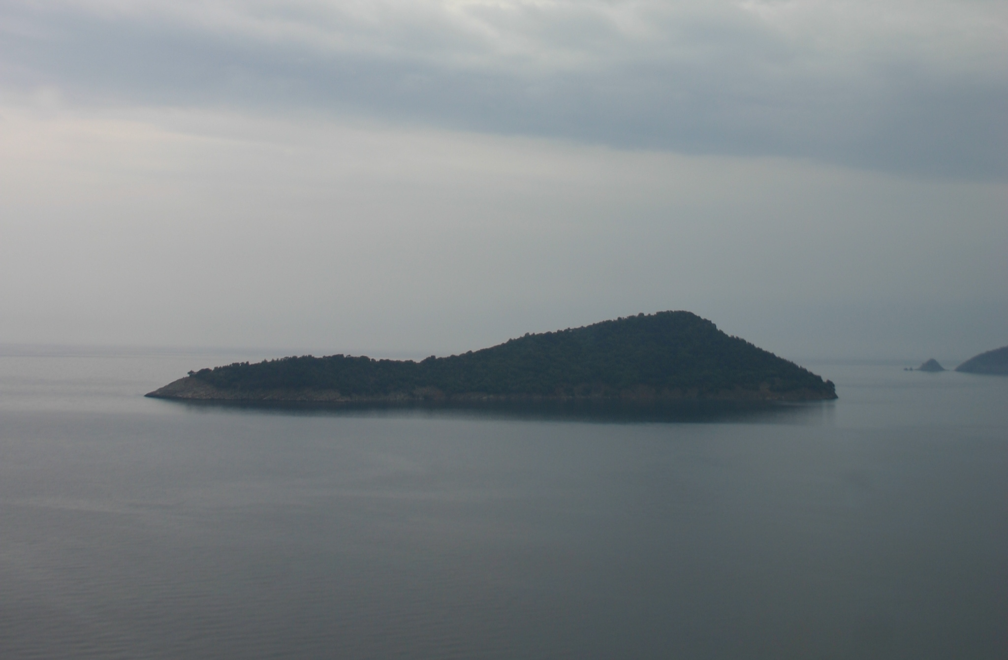 The small island Kinira off the East coats of Thassos, Greece. (Note: Picture has Geotag information stored in EXIF.)